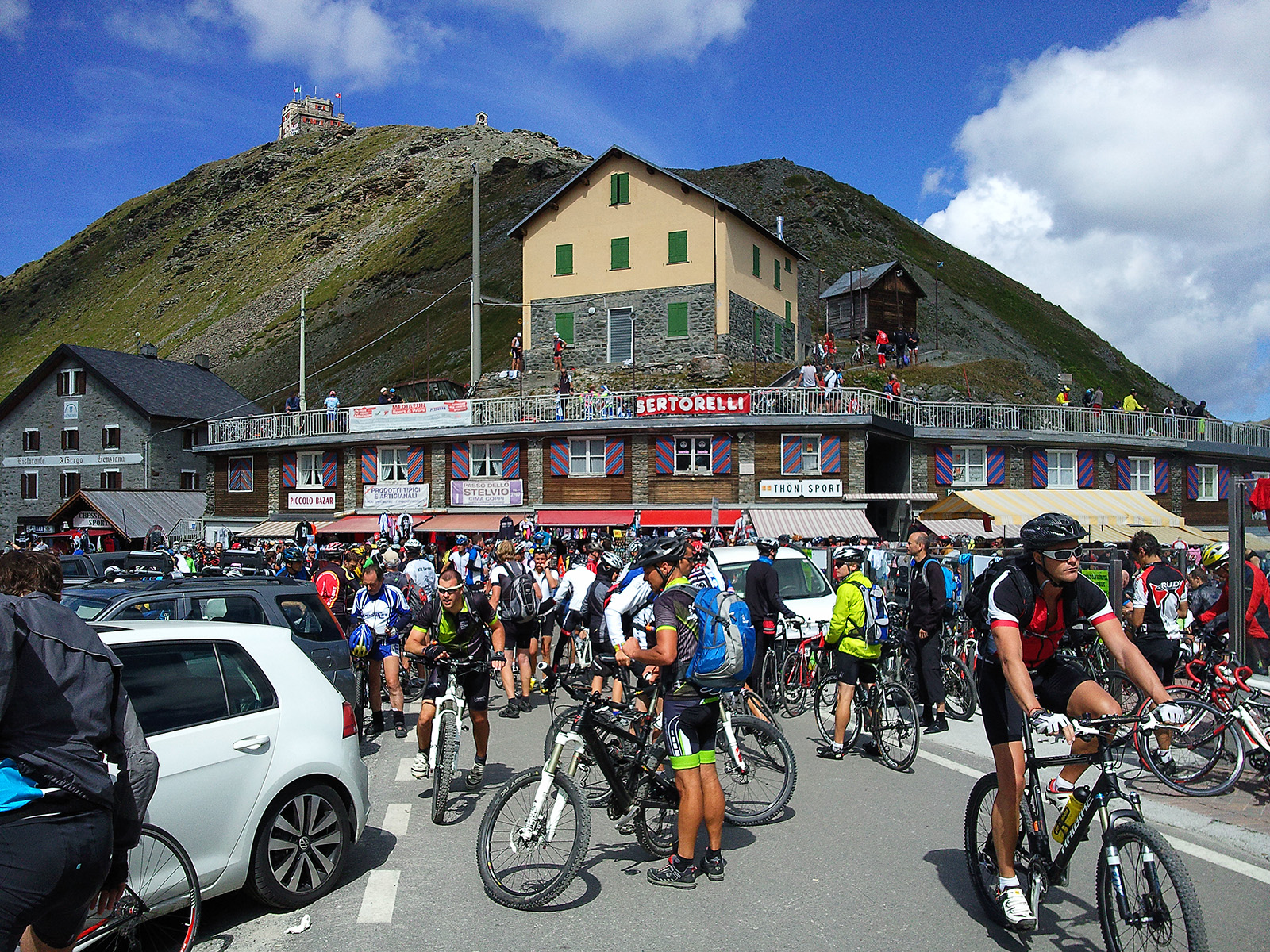 Stelvio Pass Bike Day 2013. South Tyrol, Italy.